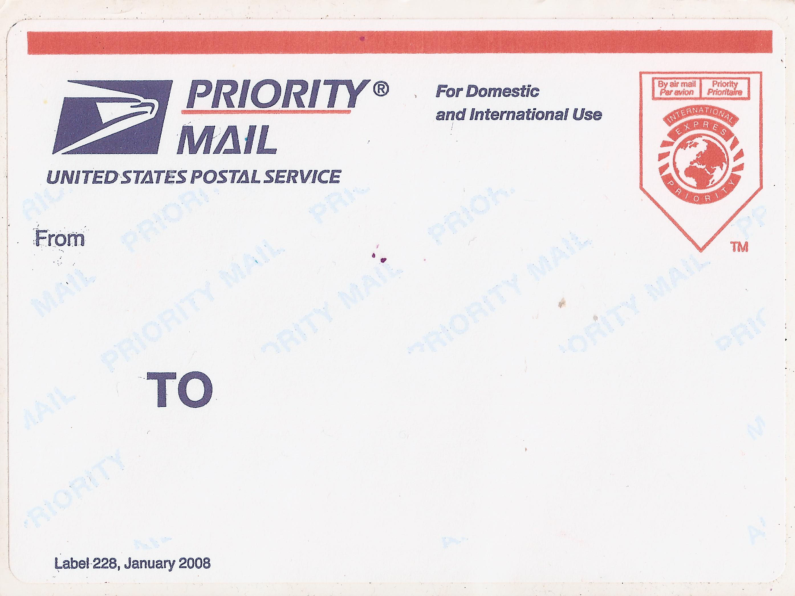 A blank Priority Mail Label 228, a postage label used to mail packages. Often used by artists for graffiti.